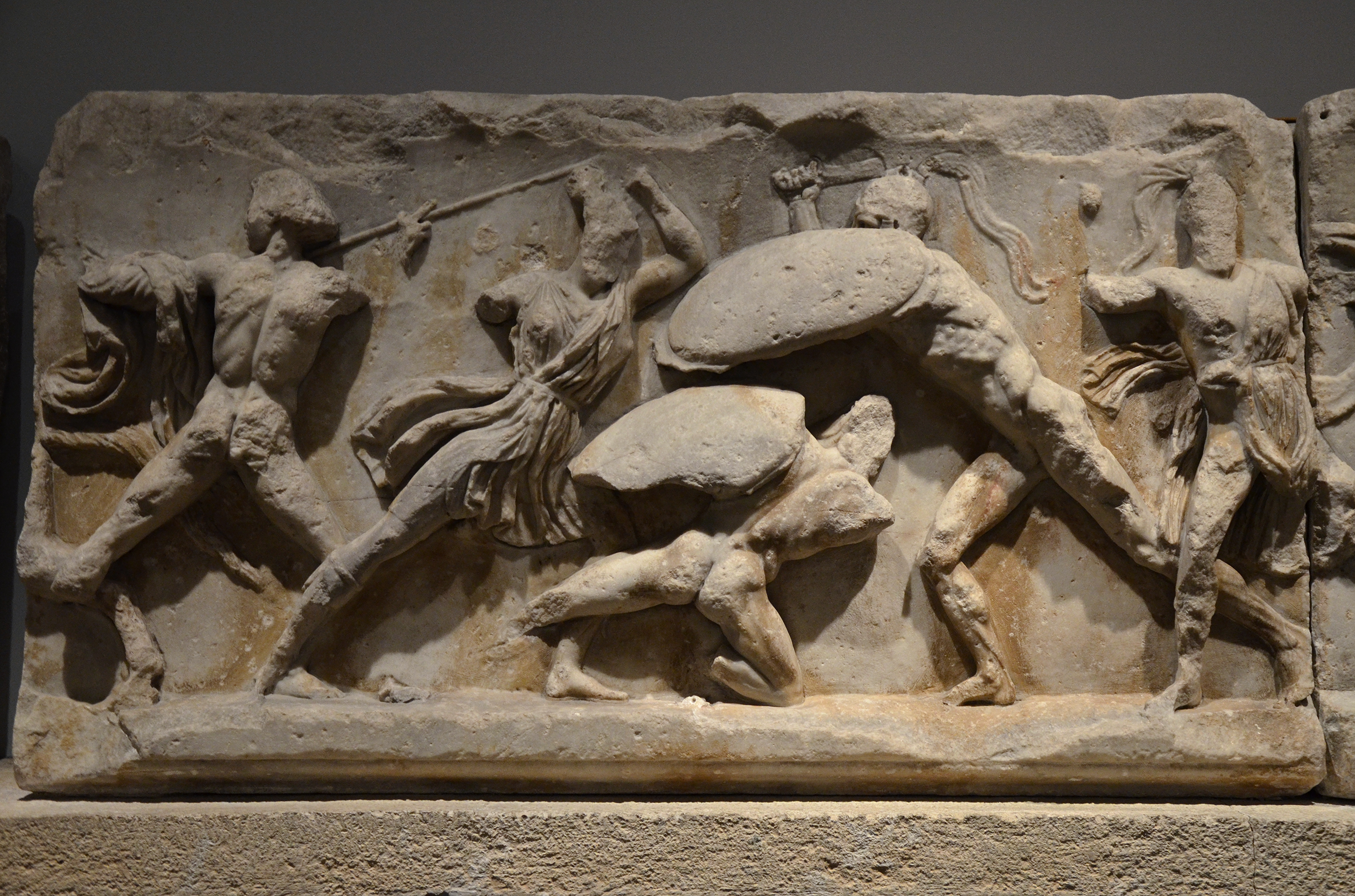 Marble slab of the Amazon frieze of the Mausoleum of Halikarnassos representing combats between Greeks and Amazons, Mausoleum at Halikarnassos, around 350 BC, British Museum